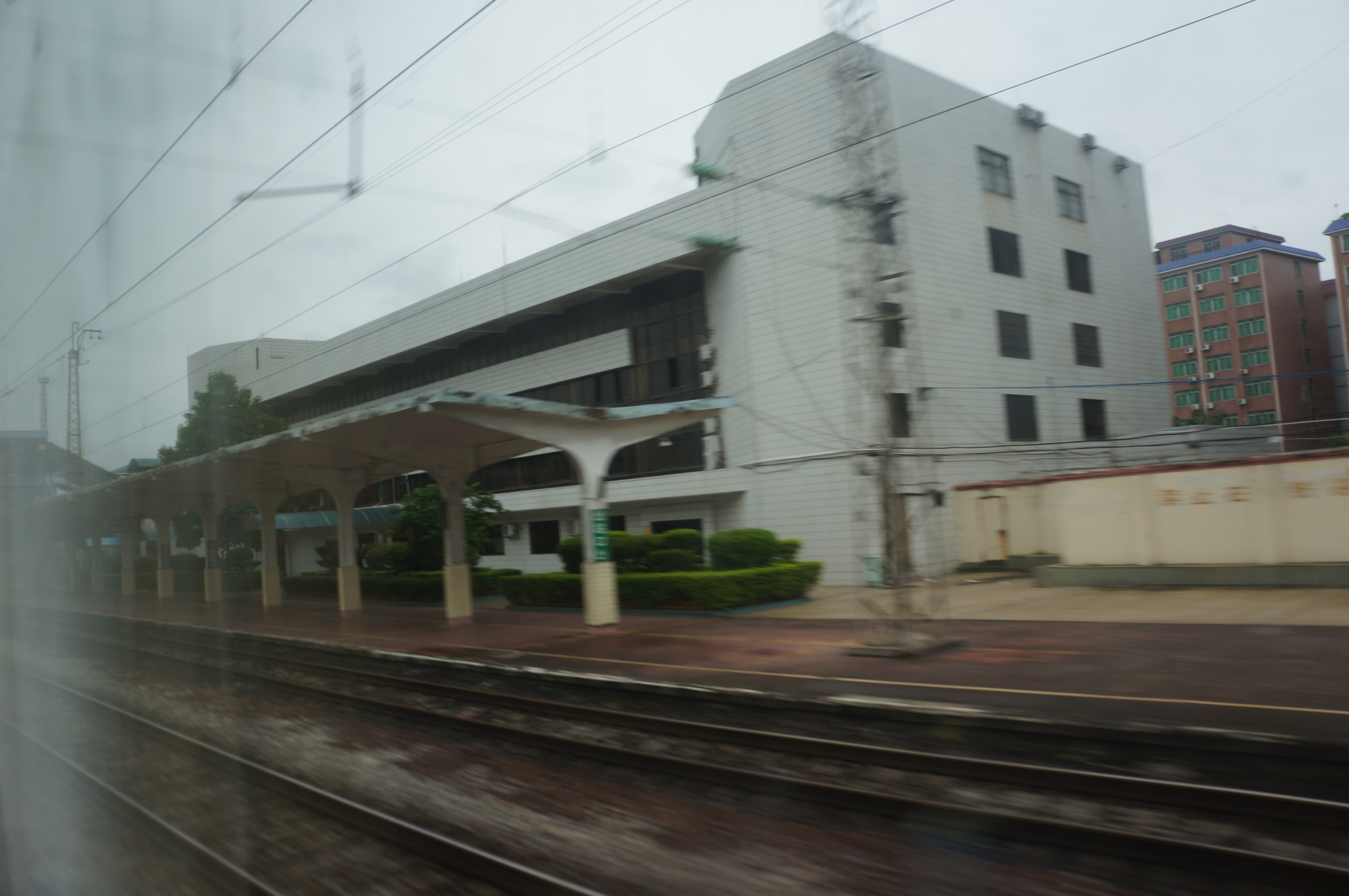 201609 Z99 passes Yuantan Station